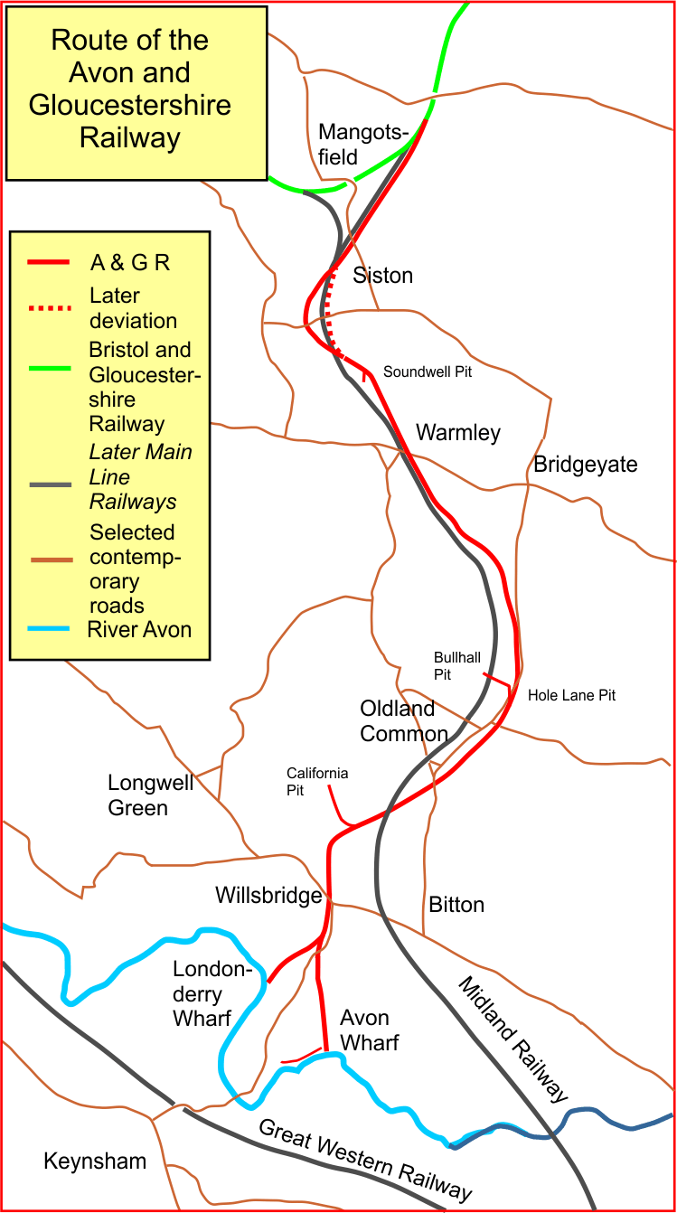 Avon and Gloucestershire Railway System Map